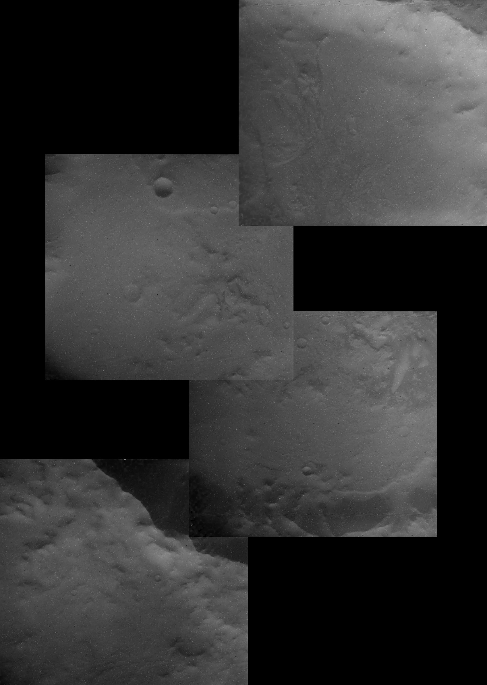 Airy crater on Mars. Viking 1 images from camera A (746A45, 746A47, on left) and camera B (746A46, 746A48, on right). Clear filter was used for these images. Resolution is about 14.5 m/pixel. All images were high in static and were despeckled prior to mosaicing, but this mosaic is still fairly speckled. Approximate north is in lower left. Statistics for left center image are below: Emission Angle: 17.7 Incidence Angle: 68.2 Latitude: -5.0 Longitude: 0.1 Phase Angle: 85.7